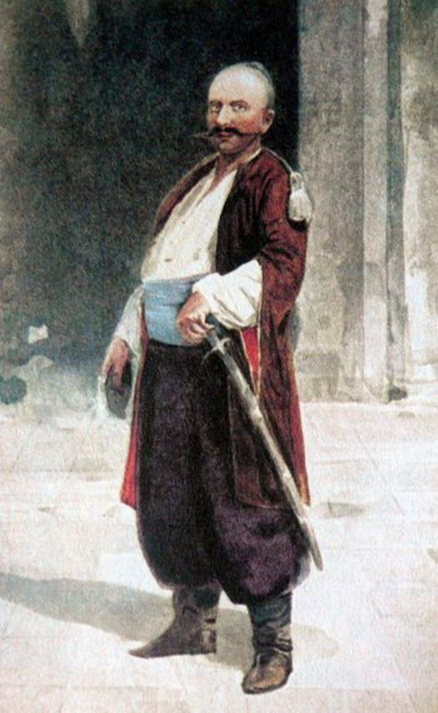 Serhii Vasylkivsky. Sotnyk of Uman.